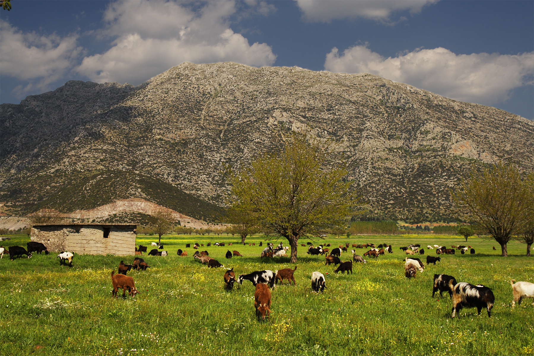 Southend of the closed Karst basin „Nestani-Saga-Polje“ in the Arcadien highland, Peloponnese Greece. In this part of the basin, „Argon Pedion“ (Greek for “untilled plain”, see also „Description of Greece“ by the ancient author Pausanias, 110-180 AD) sheep- and goat keeping dominate. Extraordinary winter rains flood this basin section even today, retarding any possibility of cultivation. The mass of water, which may form a temporary lake, can only be drained subsurface by one single ponor (Greek: καταβόθρα).